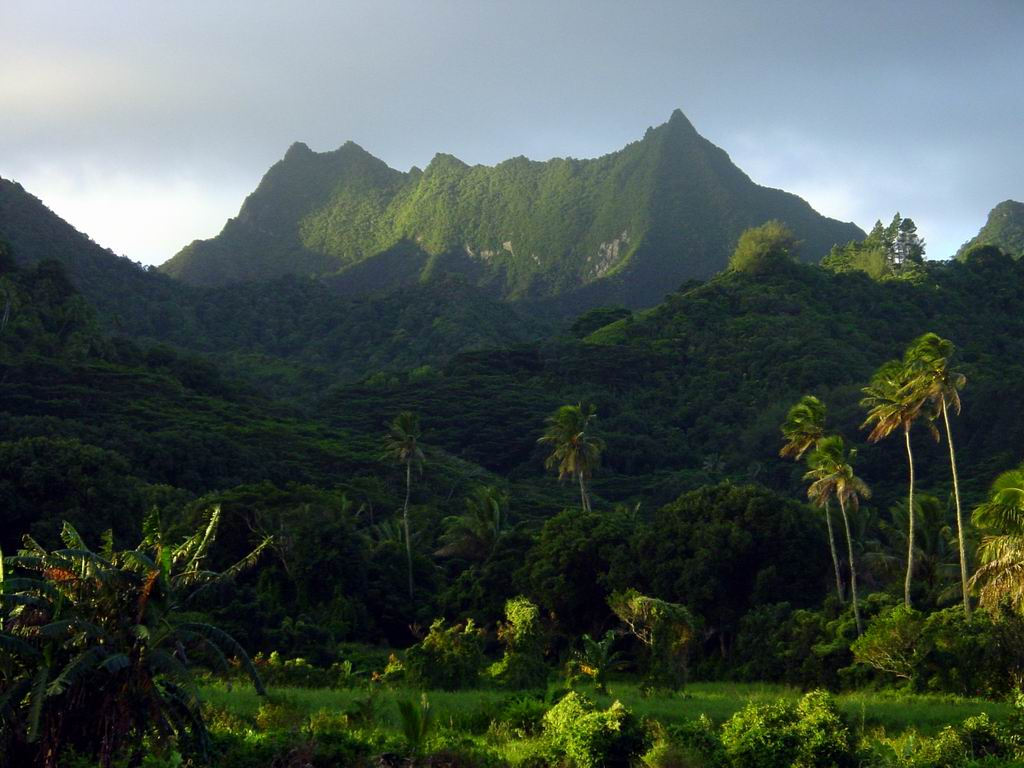 Te Manga, Rarotonga's highest peak as seen from the south coast.